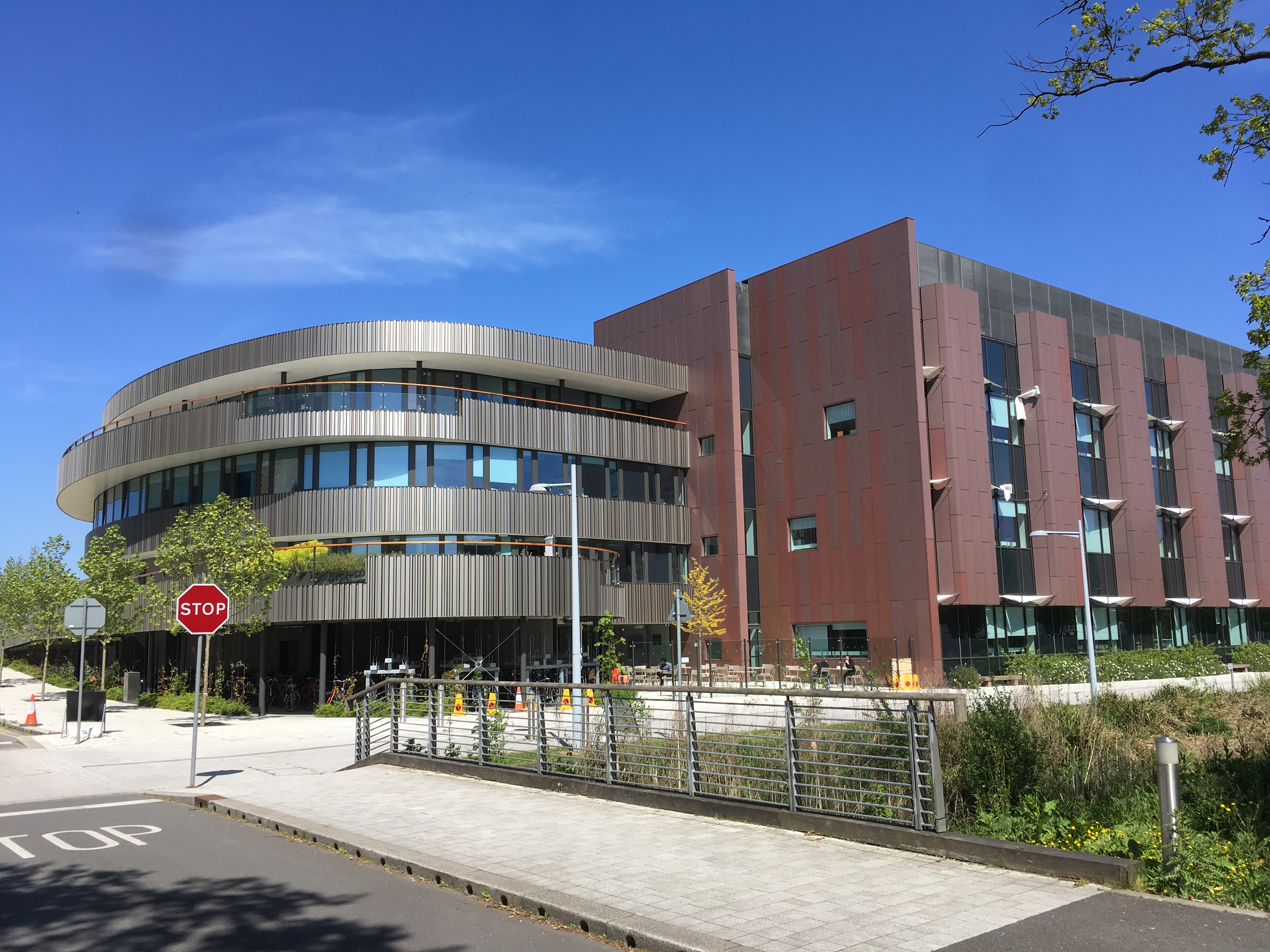 Department of Chemical Engineering and Biotechnology, Philippa Fawcett Drive, West Cambridge